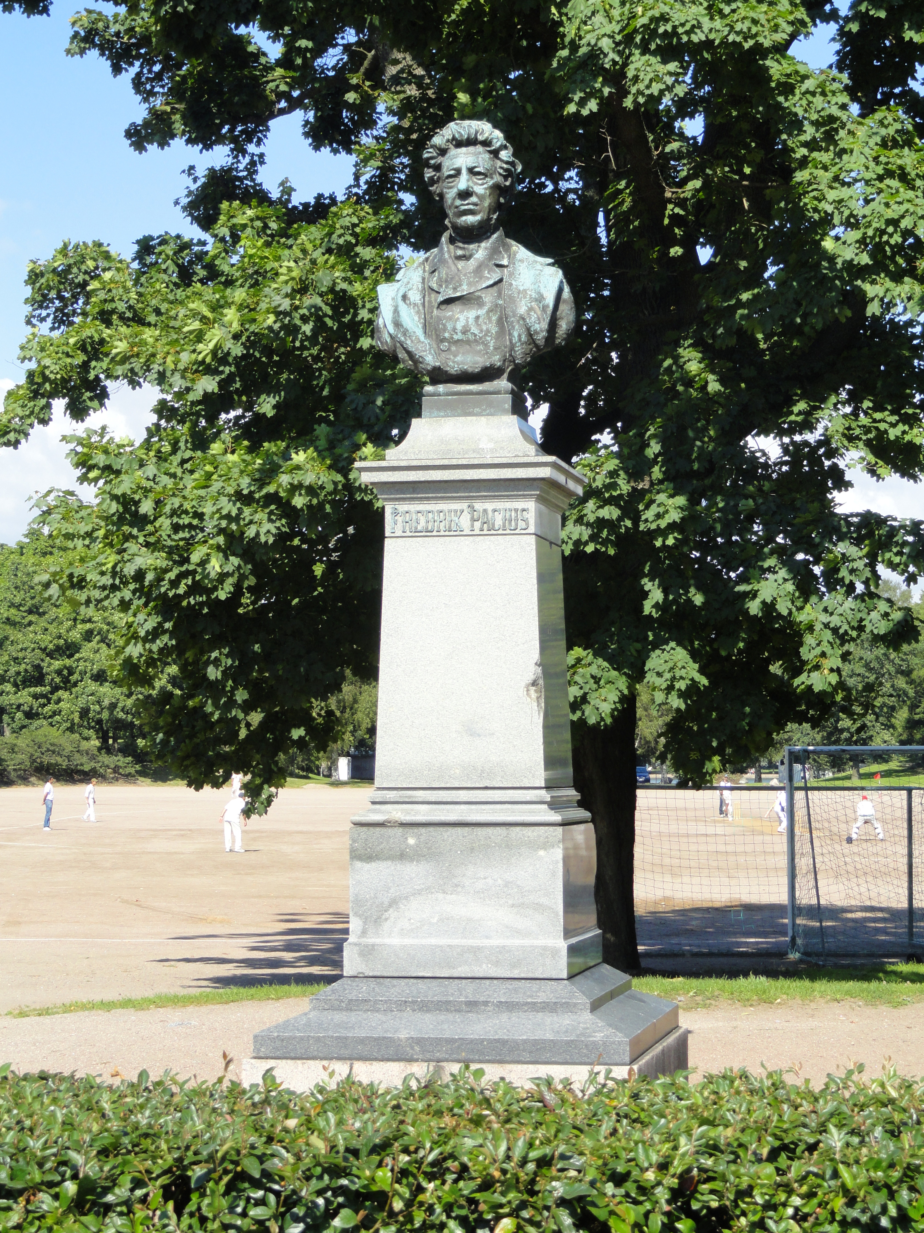 Bust of Fredrik Pacius by Emil Wikström, Helsinki, Finland. Dedicated in 1895. This sculpture is in the public domain because the artist died more than 70 years ago.